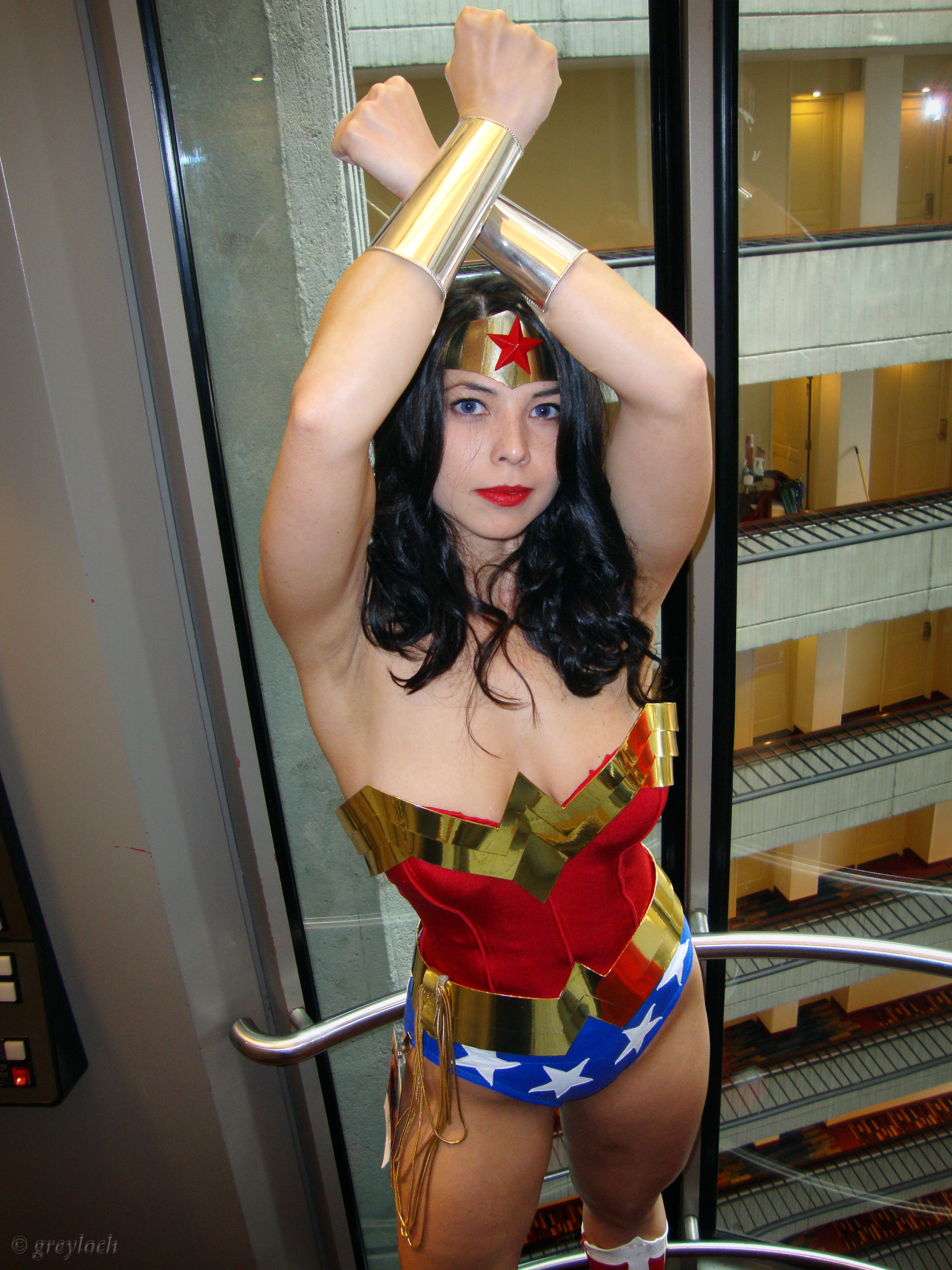 The air quality in Atlanta is bad enough that even an Amazon needs to ride the elevators. ^.^ I was the first person to take a pic of Margie in her latest Wonder Woman costume. Keen!!!